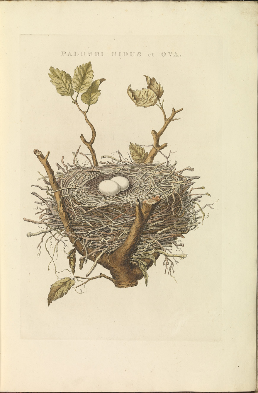 Plate 5 from the Nederlandsche vogelen by Nozeman and Sepp.